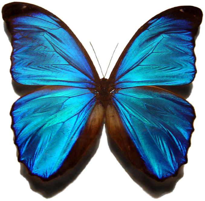 Photograph of a Blue Morpho butterfly (Morpho menelaus). Prepared specimen wingspan is approx. 10 cm (4 inches). Abdomen has been removed to prevent staining. Transparent version by Lycaon